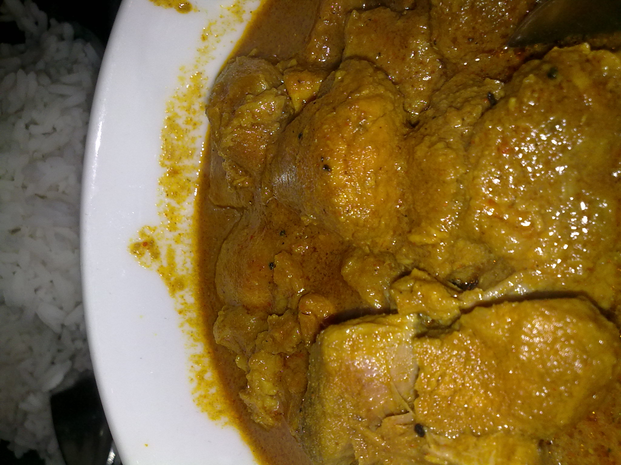 Vindaloo, photographed in Lisbon in a goan restaurant.